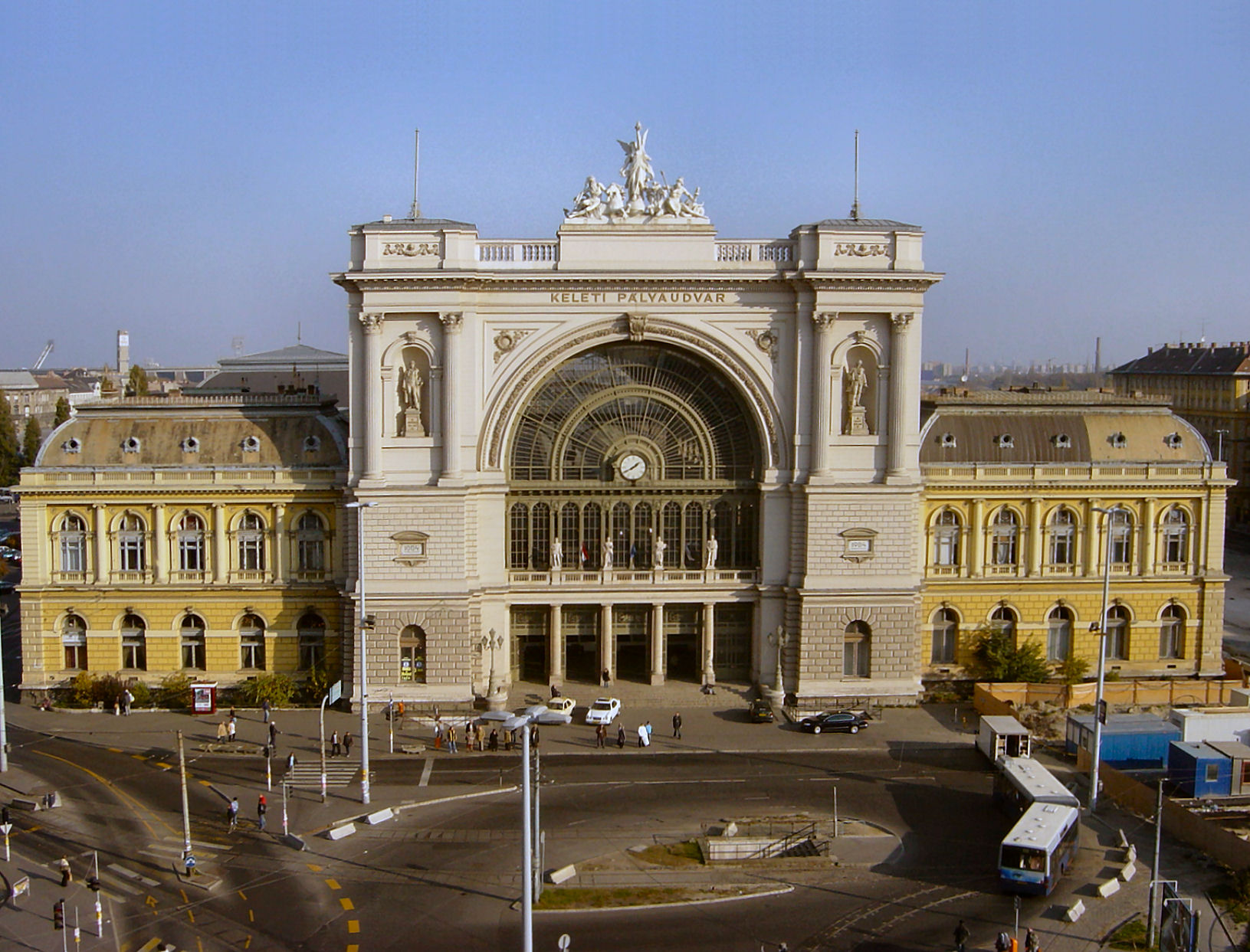 Keleti (Keleti pályaudvar) - the eastern railway station in Budapest. Built in 1881-1884 under the design by the Hungarian architects Gyula Rochlitz and János Feketeházy.